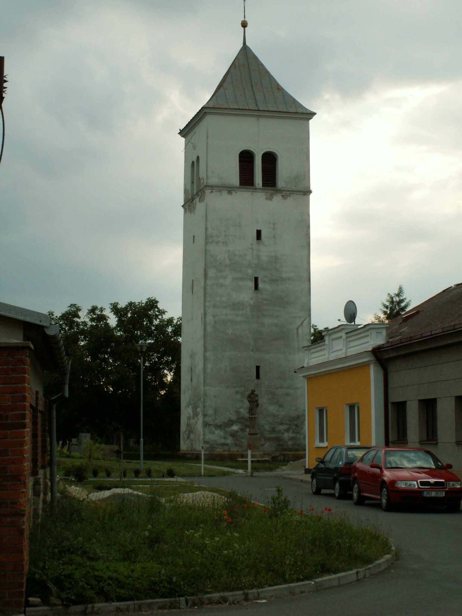 Dřevohostice (Czech Republic) - renaissance tower, originaly bell tower of Moravian Church from 16th century.